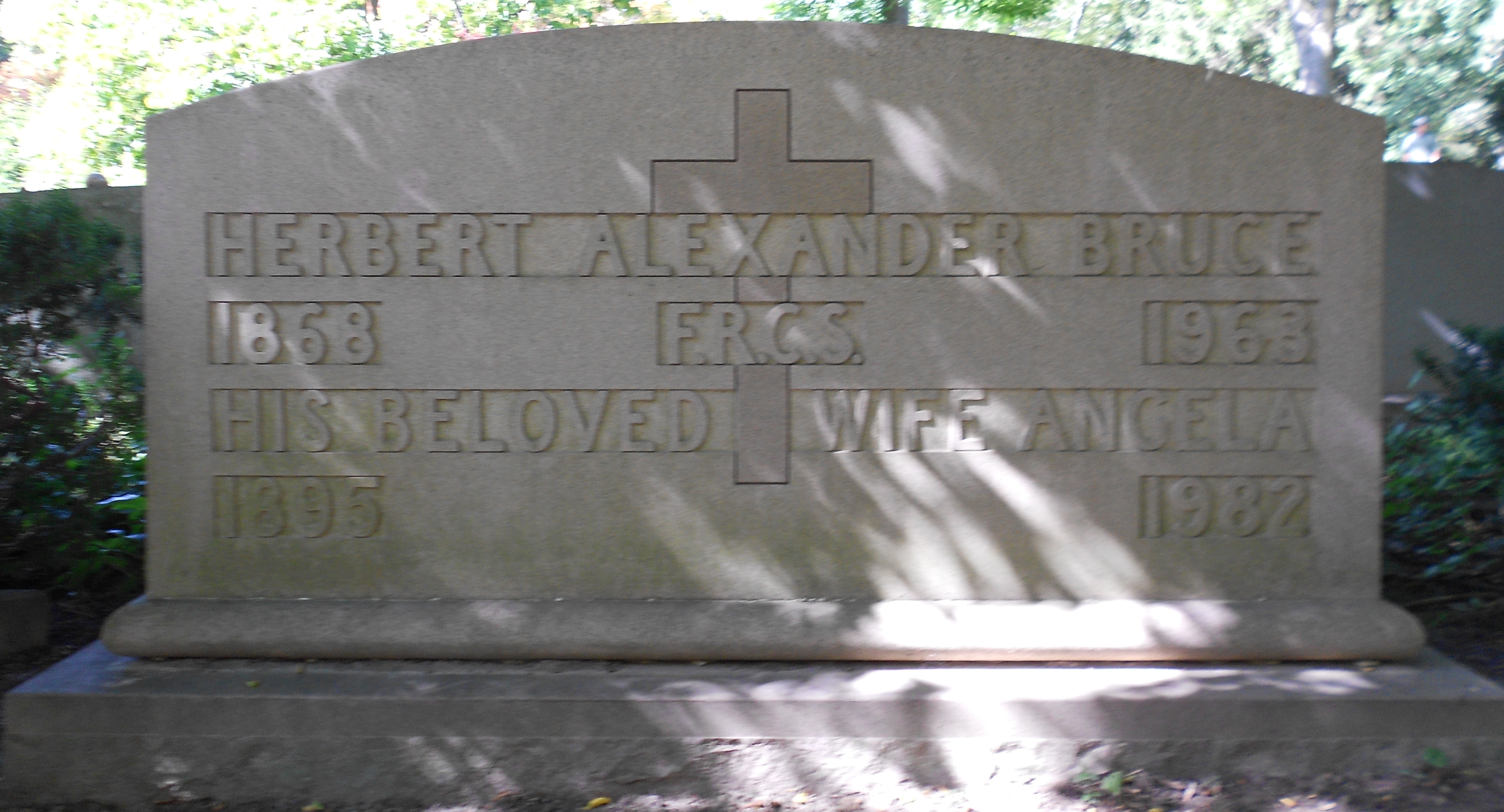 The gravestone of Herbert Alexander Bruce the 15th Lieutenant Governor of Ontario.